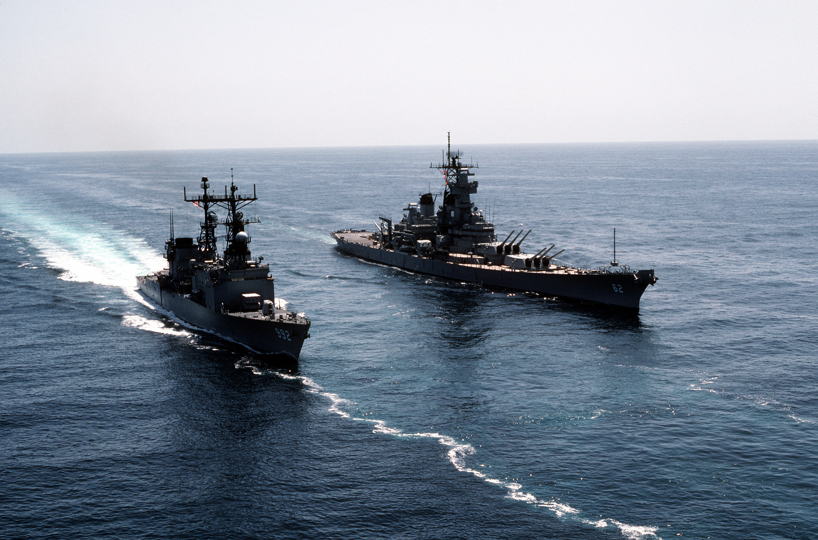 An aerial starboard bow view of the battleship USS NEW JERSEY (BB-62), right, and the destroyer USS FLETCHER (DD-992). The ships are part of a task group underway off the coast of California.